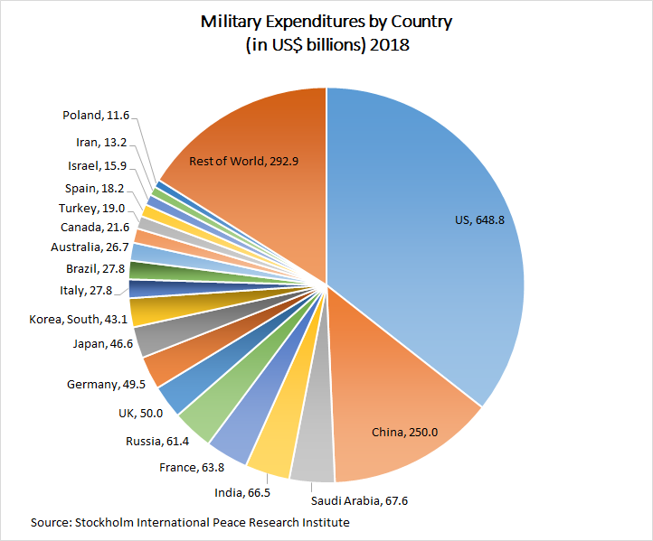 Military Expenditures by Country in US$ billions, 2018 according to Stockholm International Peace Research Institute in a pie chart.